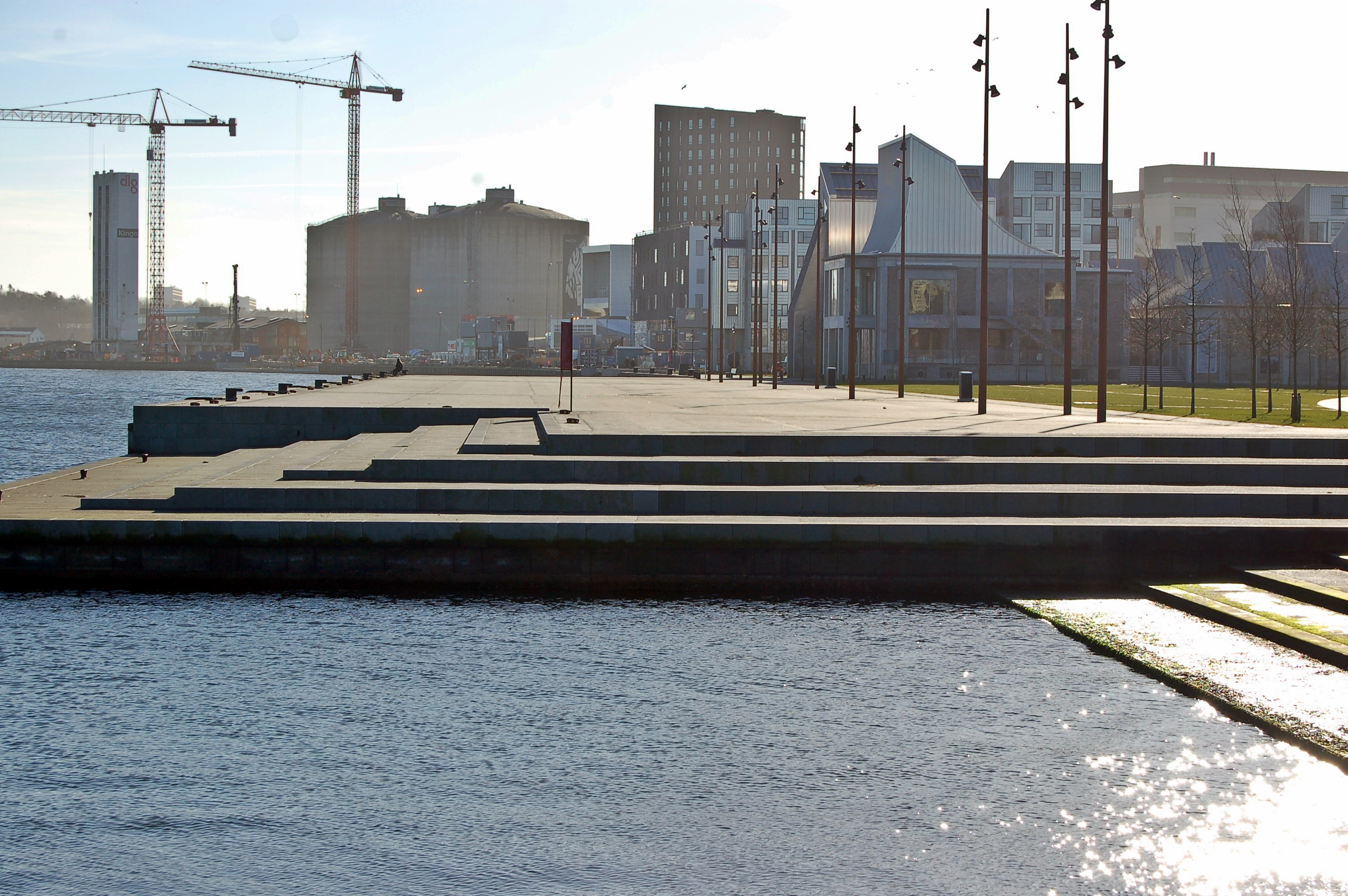 Aalborg Waterfront in sun on a morning